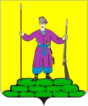 Coat of arms of Berezanskaya, Vyselki Raion, Krasnodar Krai, Russia.